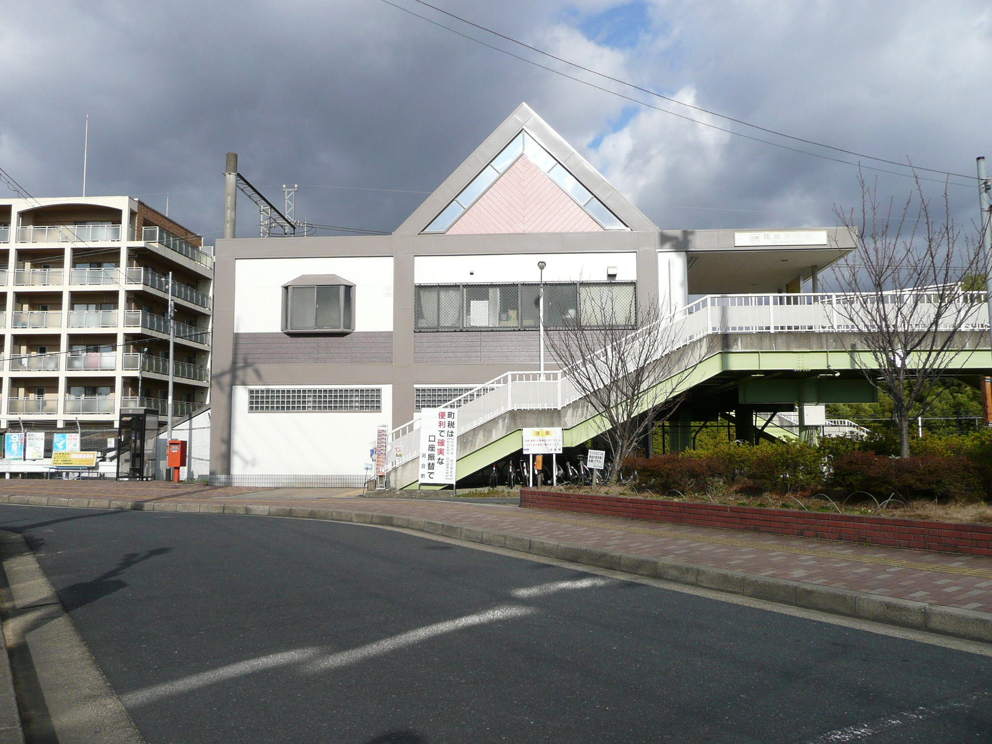 Kinki Nippon Railway,Tawaramoto Line,Samitagawa Station south entrance. /近鉄田原本線（たわらもとせん）佐味田川駅南口